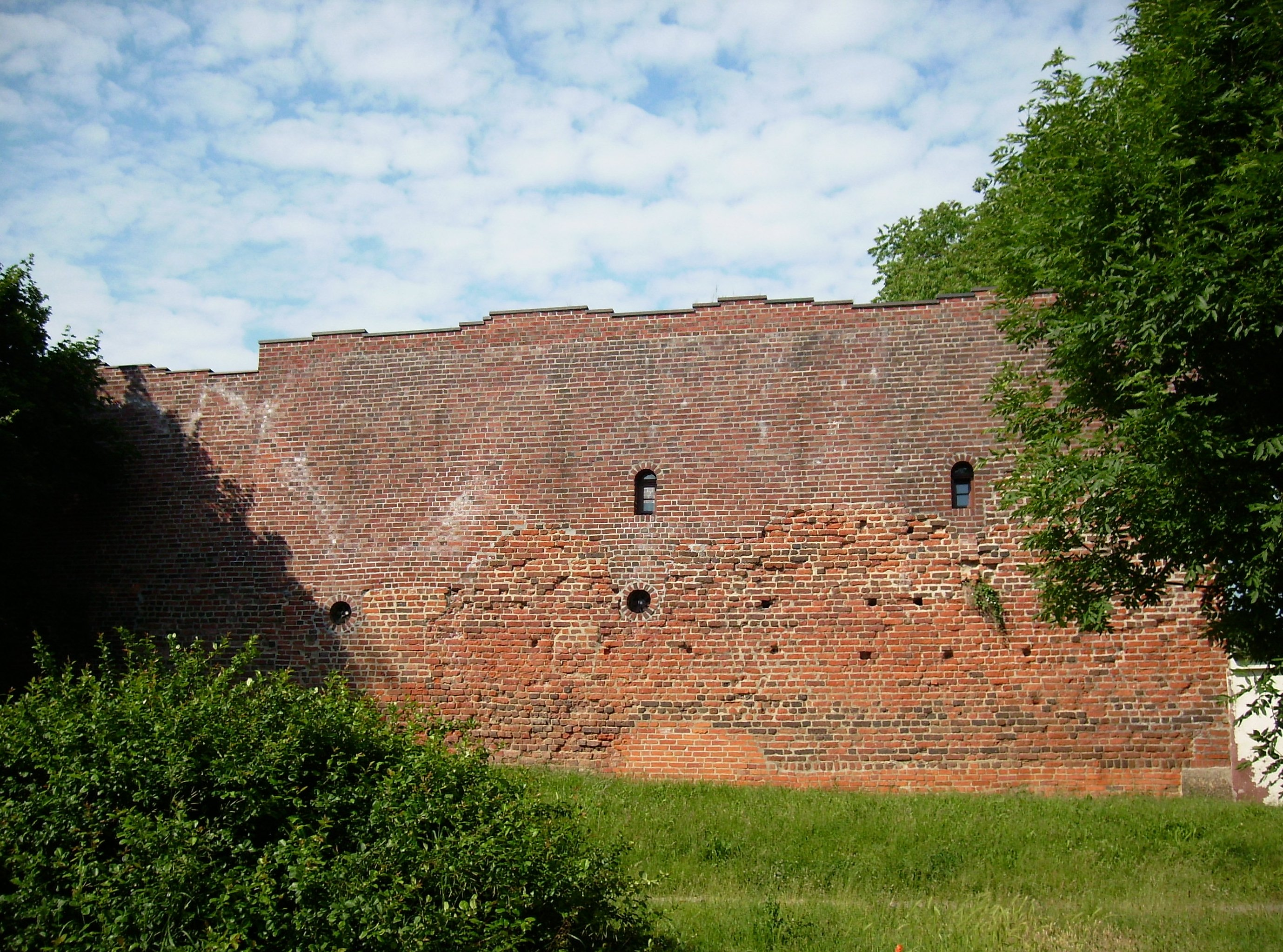 Remains of Gräfenhainichen Castle (Wittenberg district, Saxony-Anhalt, Germany), destroyed in 1637